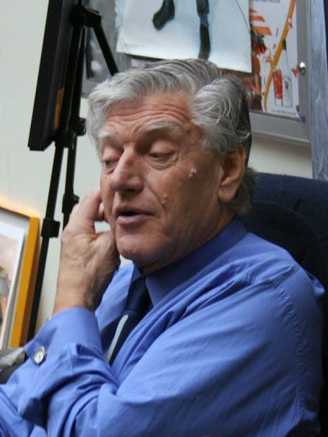 David Prowse, English body-builder from Bristol, weightlifter and actor, most widely known for his role as the physical form of Darth Vader. Taken at the Norwich Sci-Fi Film, Toy, and Collectors' Fair in 2006.